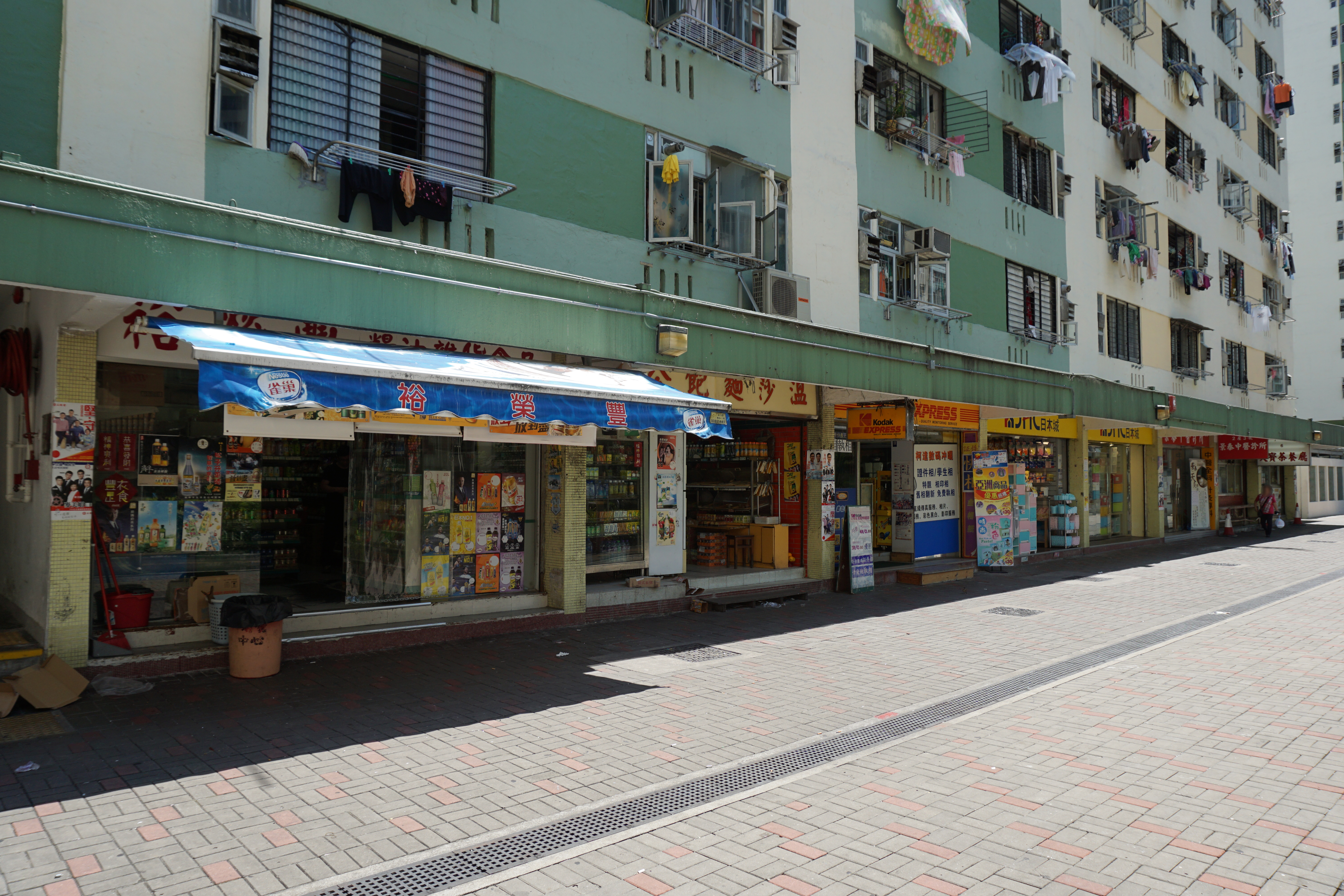 Lei Muk Shue (II) Estate in Lei Muk Shue, Hong Kong.